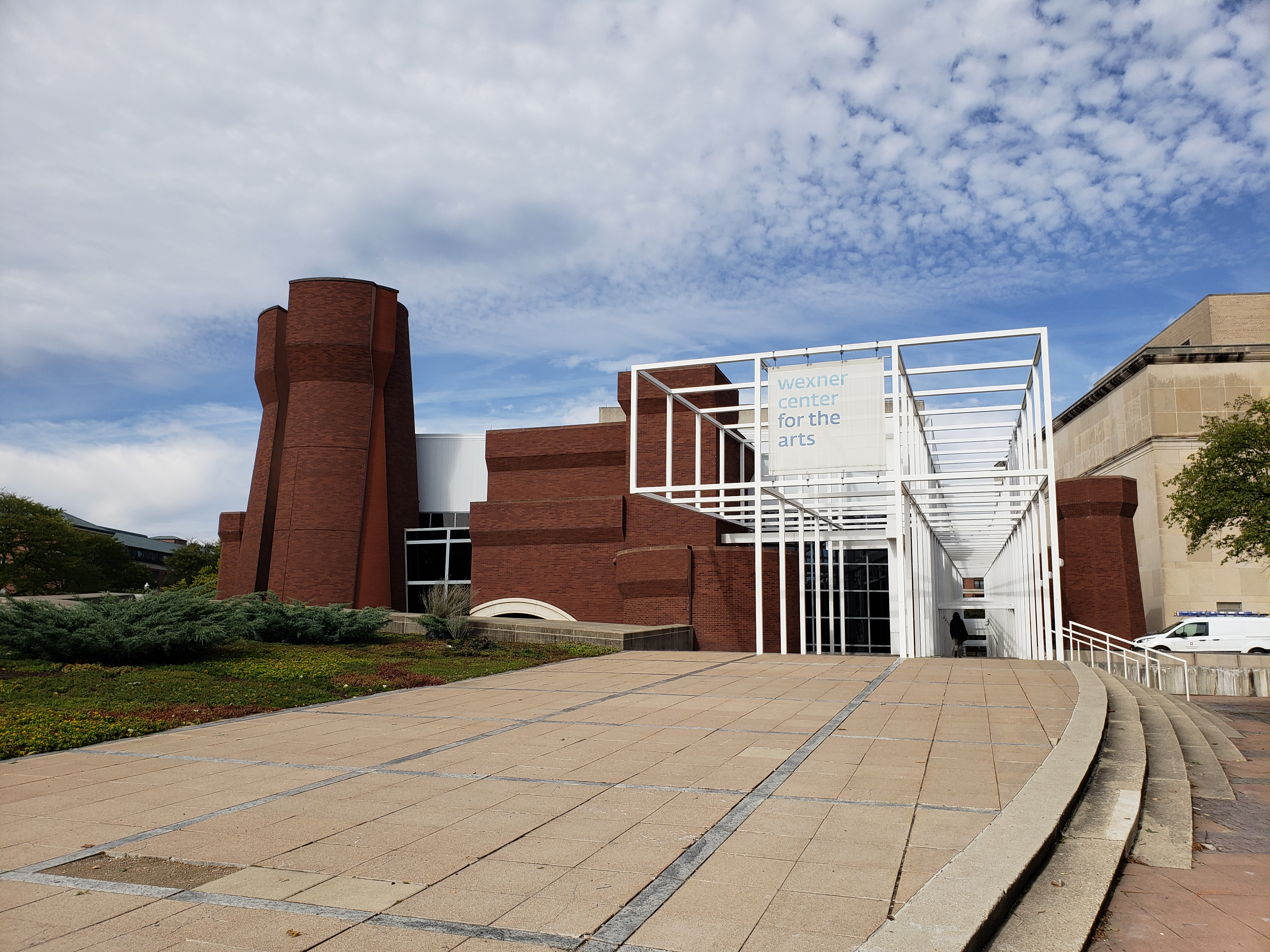 Exterior view of Wexner Center for the Arts, aboard the Ohio State University, as seen from its south exterior